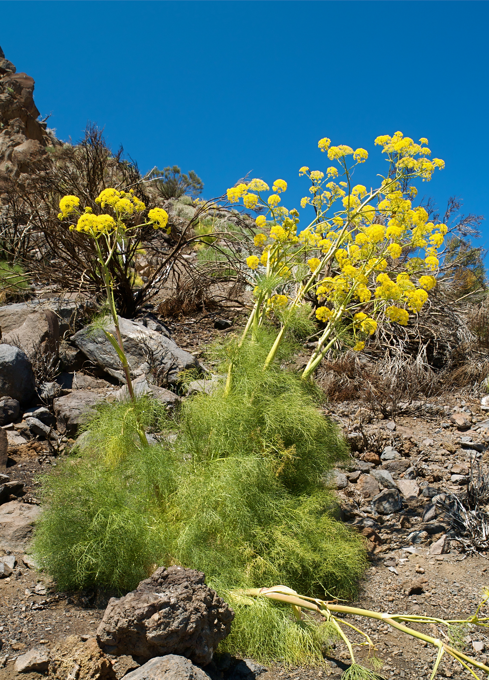 Canary Giant Fennel (Ferula linkii), Las Cañadas, Tenerife, Spain